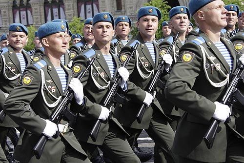 RED SQUARE, MOSCOW. Russian paratroopers during the military parade dedicated to the 63th Anniversary of Victory in the Great Patriotic War (May, 9th 2005.